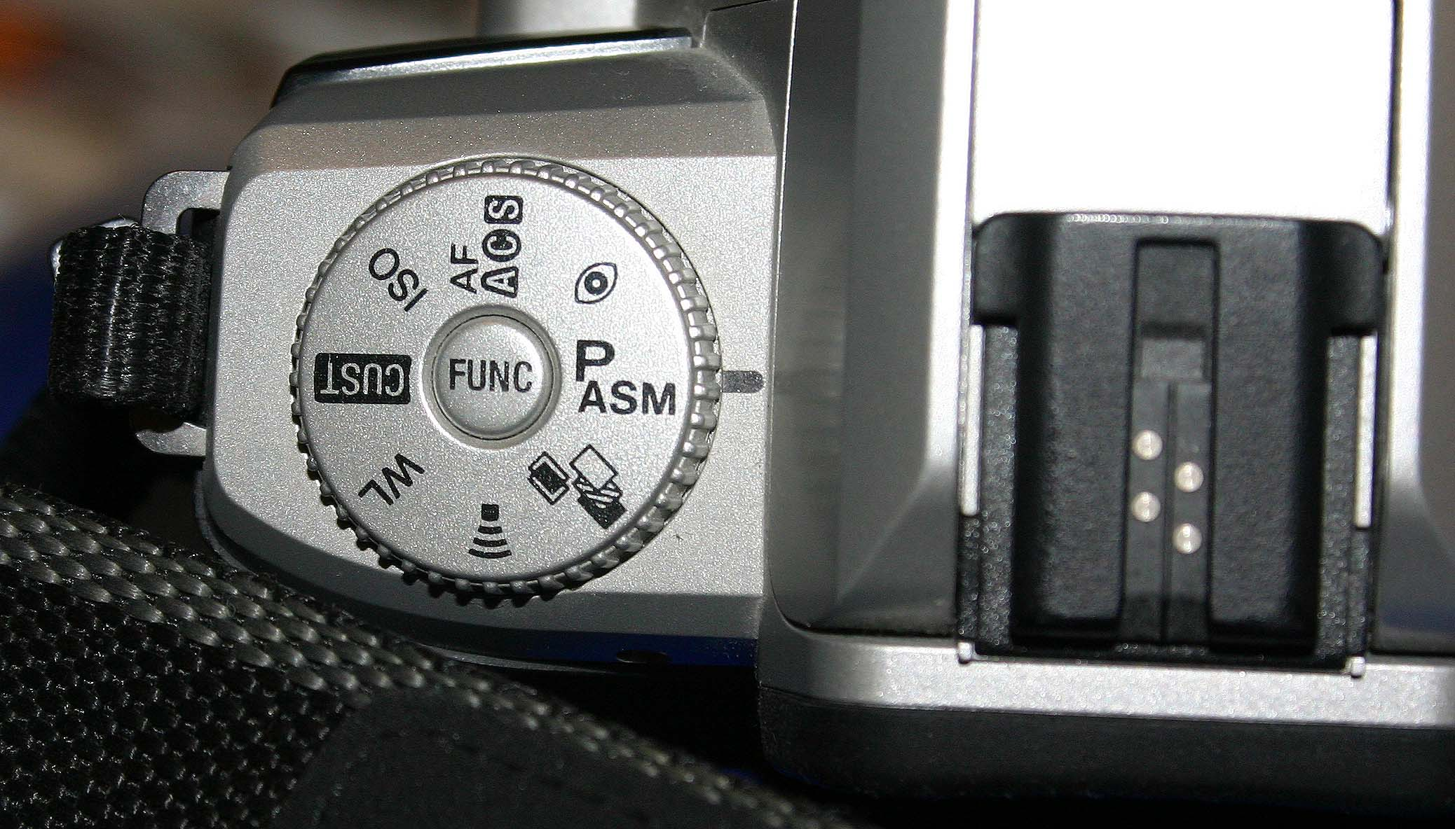 Minolta Maxxum 4 with a Canon EOS Digital Rebel. Zoomed in to show function dial and obsolete flash shoe shape.